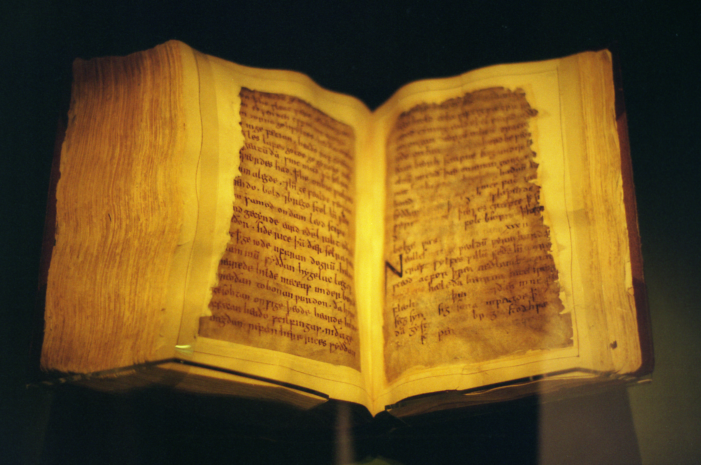 Manuscript of Beowulf, in the British Library, London, England